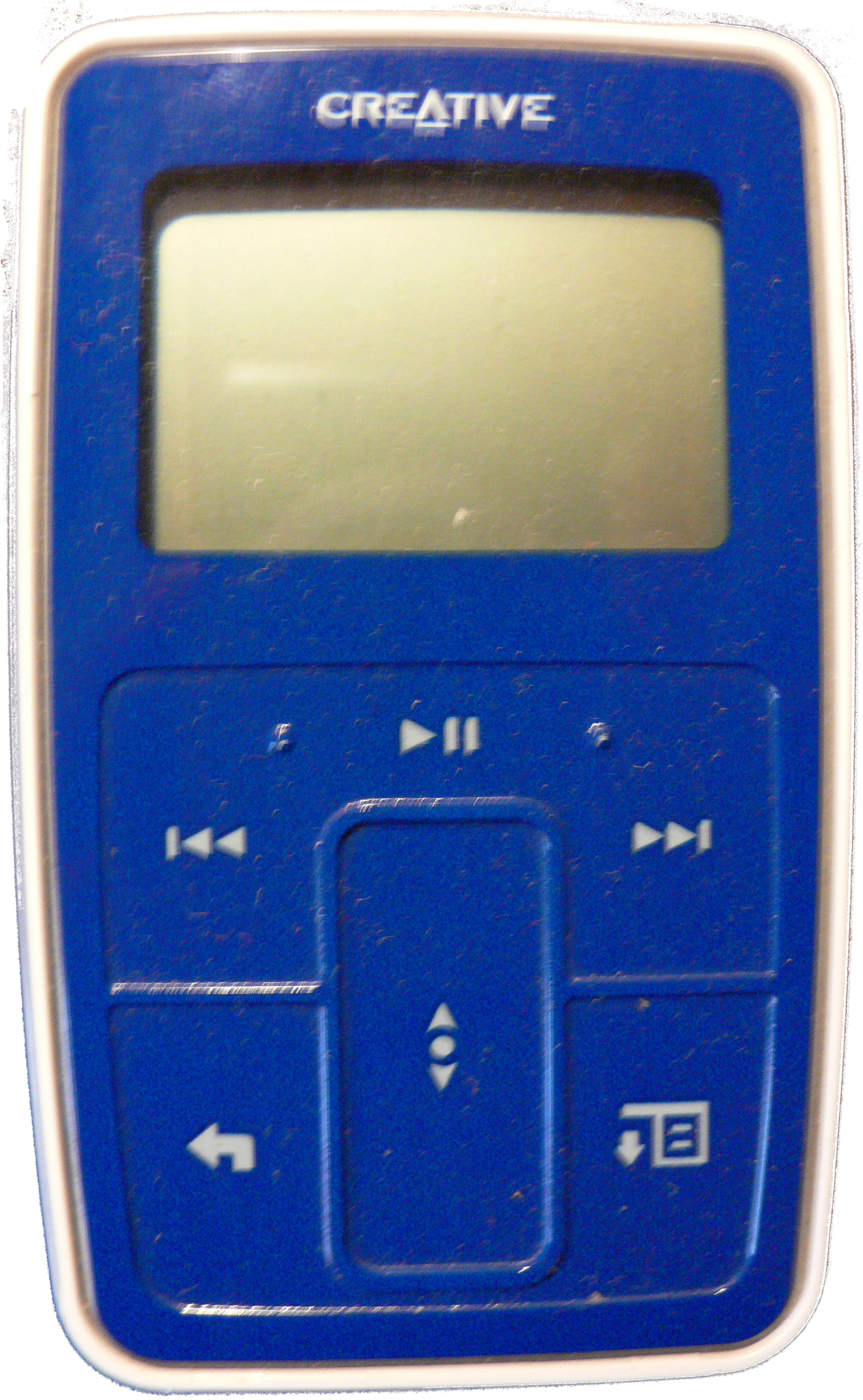 Creative Zen Micro 5GB